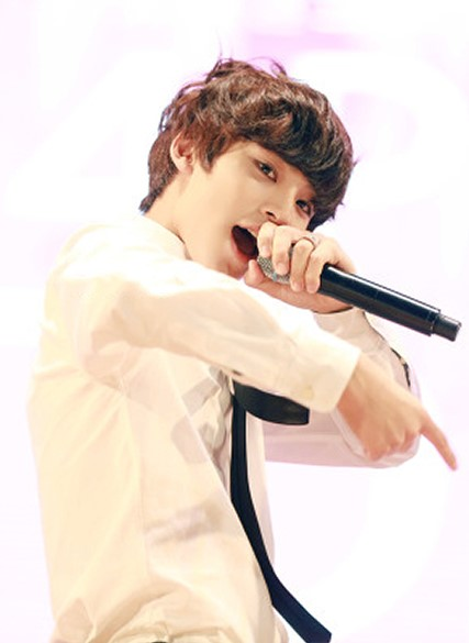 Kim Min-gyu performing at Lotte World on September 14, 2013.